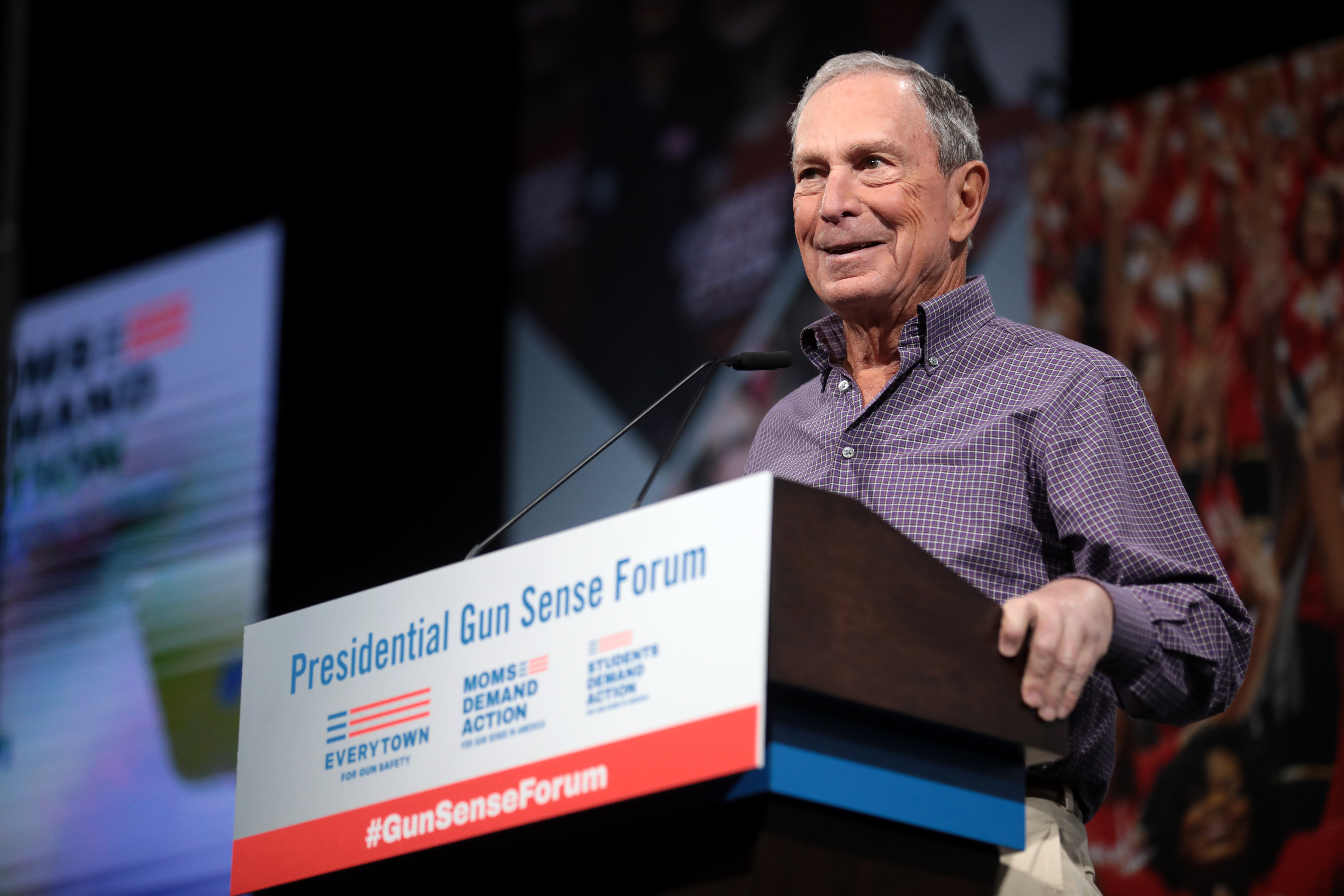 Former Mayor Michael Bloomberg speaking with attendees at the Presidential Gun Sense Forum hosted by Everytown for Gun Safety and Moms Demand Action at the Iowa Events Center in Des Moines, Iowa.